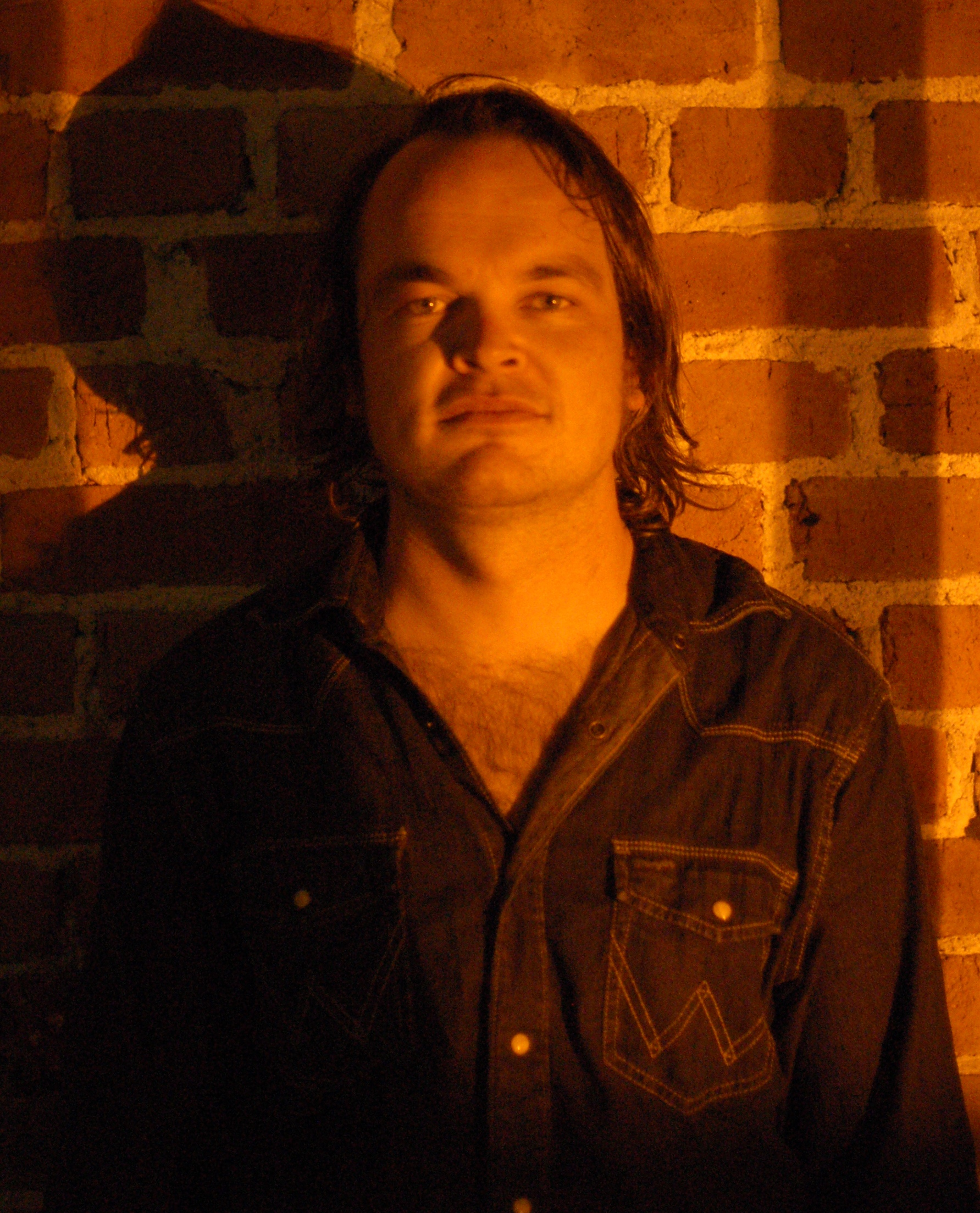 Jazz pianist Morten Qvenild. Photo: Thomas Bjørndahl